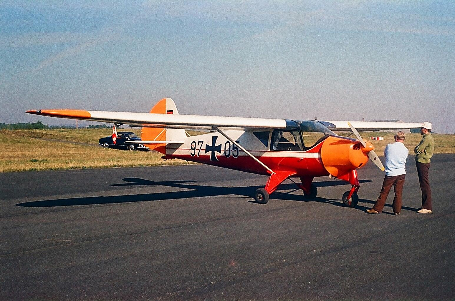 Pützer Elster B (Luftwaffe 97+05) at Pferdsfeld air base (EDSP) (closed 1997). A Volkswagen Karmann Ghia convertible can be seen in the background.